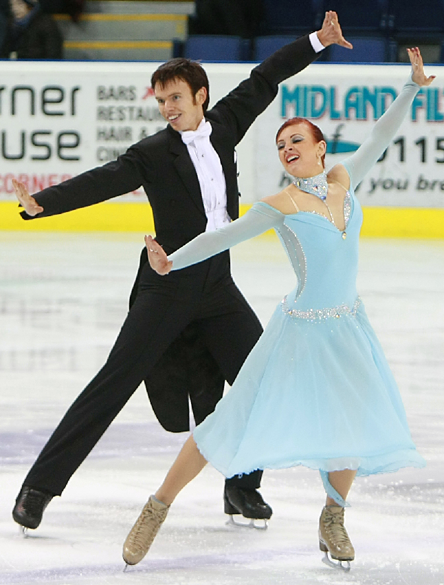 Photograph of Owen Edwards for inclusion in the Owen Edwards ice dancer page